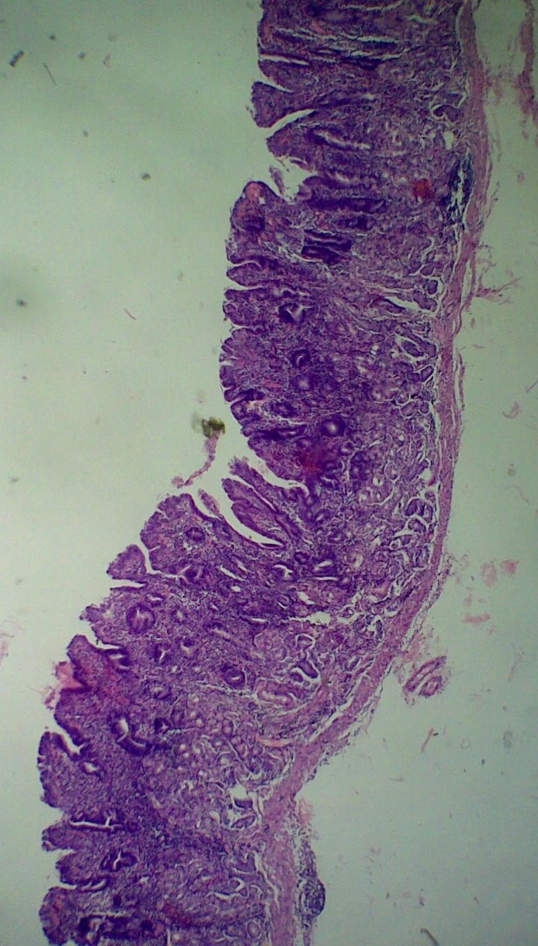 Atrophic gastritis. This is a micrograph of the pyloric region of the wall of the stomach. It was stained with hematoxylin-eosin.